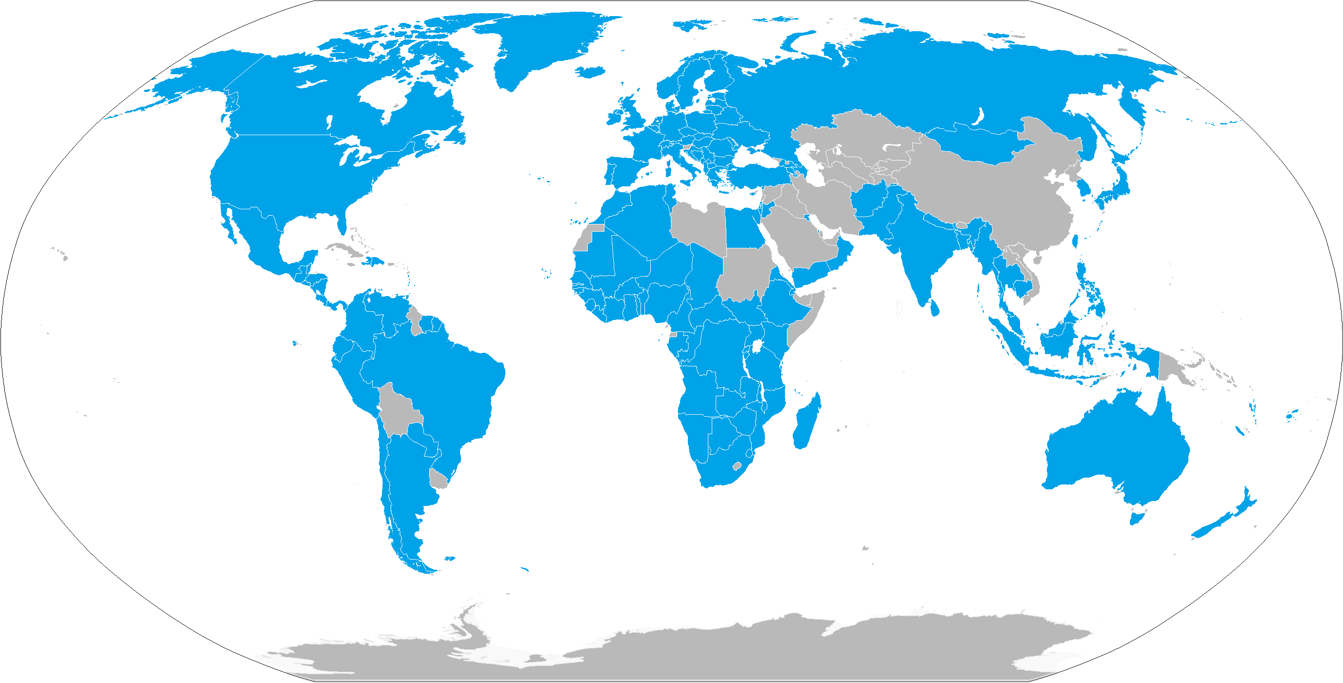 Countries in light blue have an ITUC affiliate